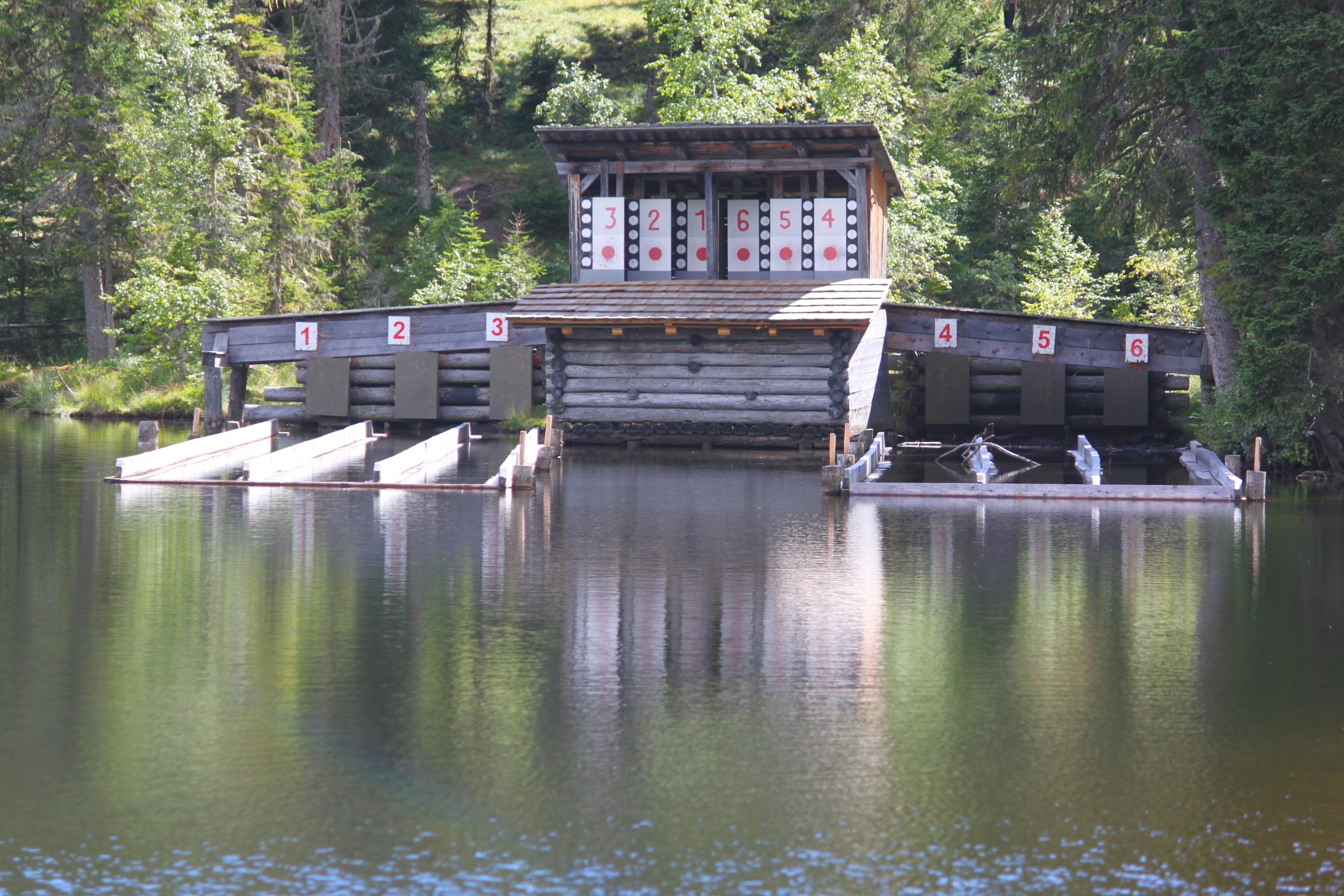 Shooting range at Prebersee